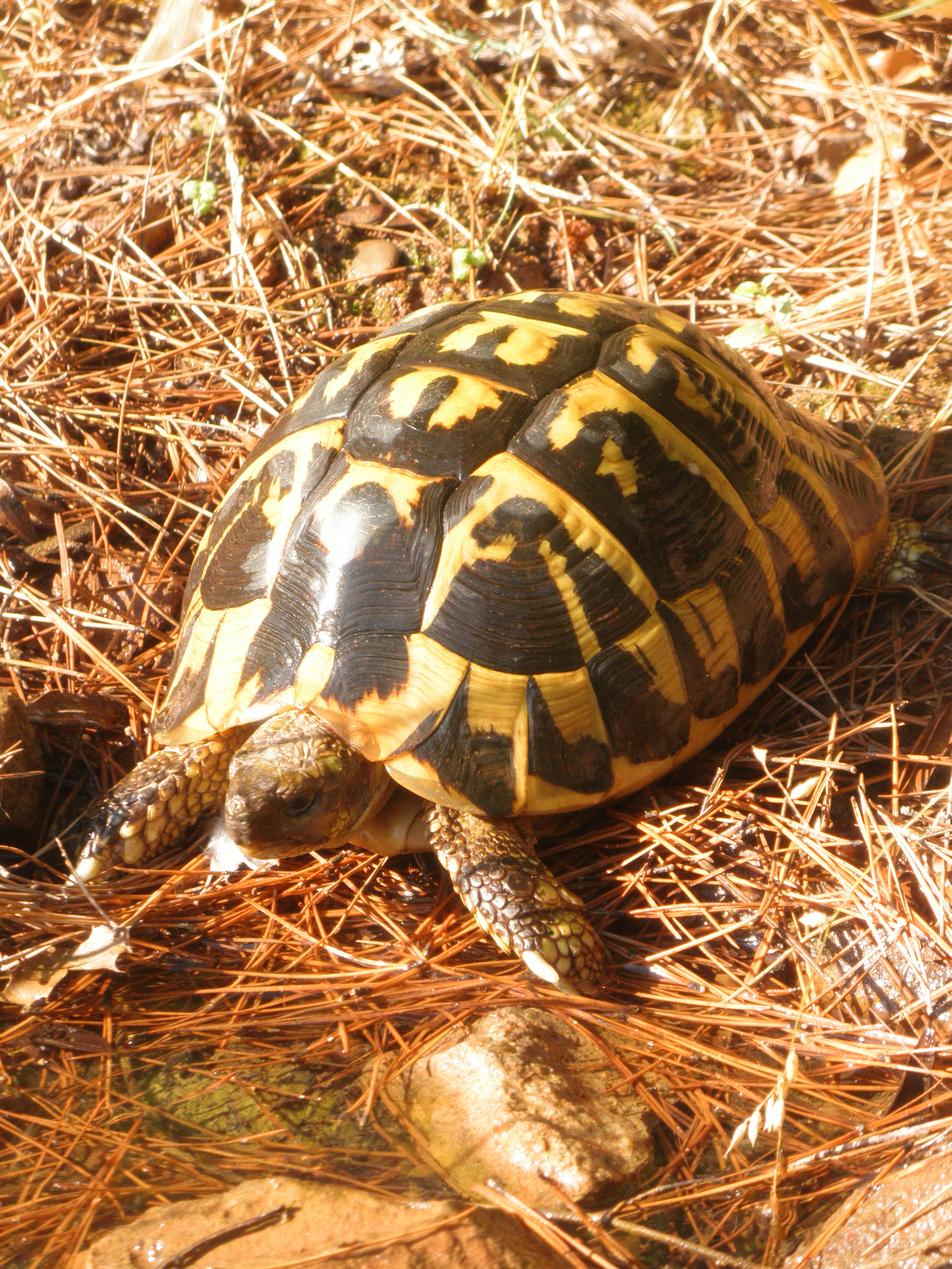 plantier